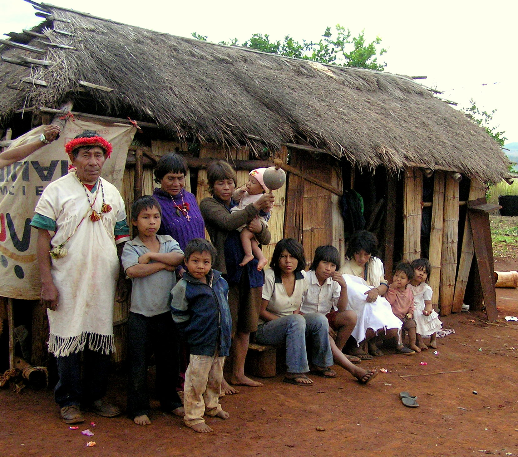 Pai Tavytera Indians, part of the Panambi'y tribe in Amambay, Paraguay